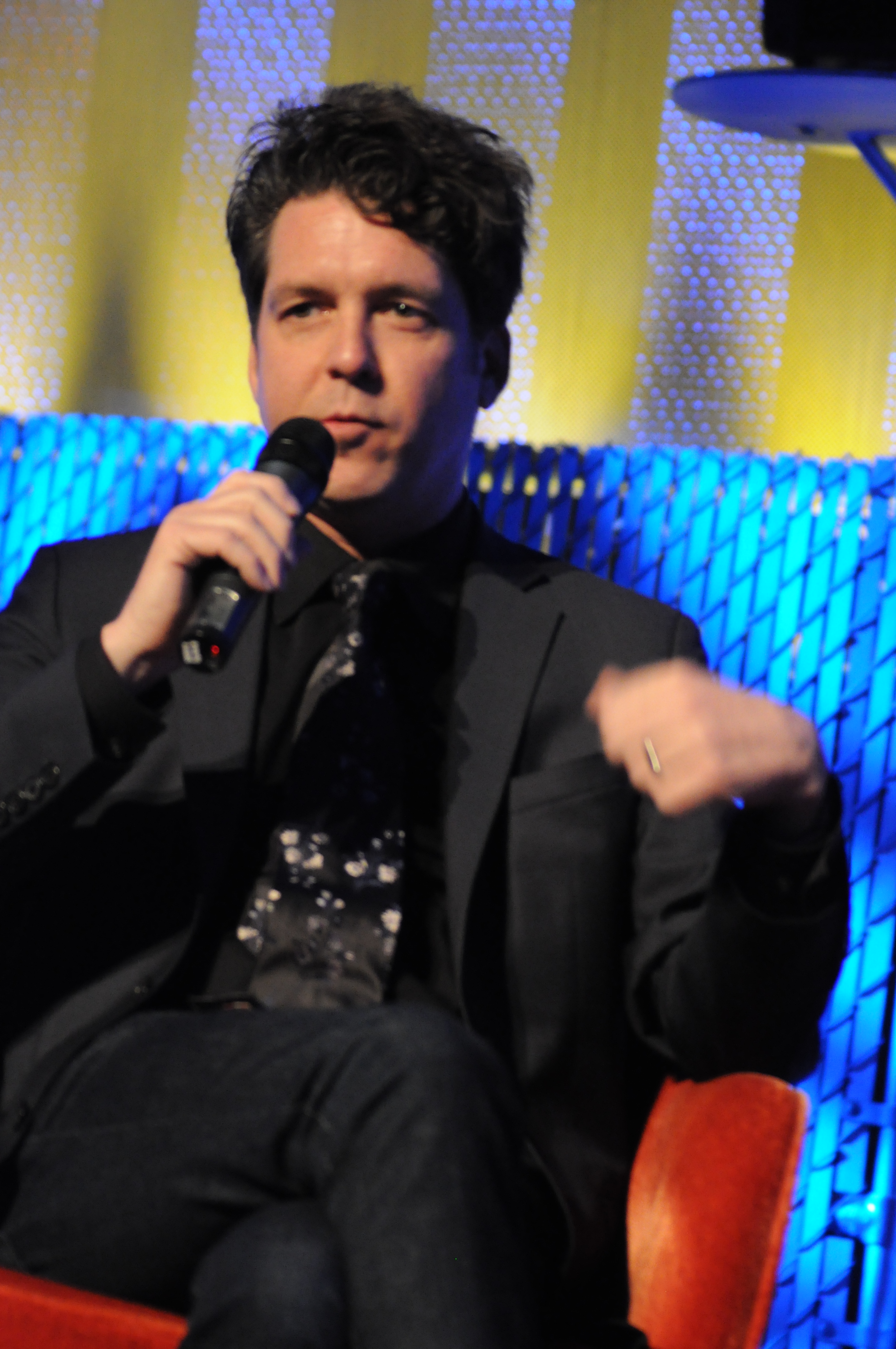 Joe Henry on the keynote panel of the 2010 Pop Conference, EMPSFM, Seattle, Washington.